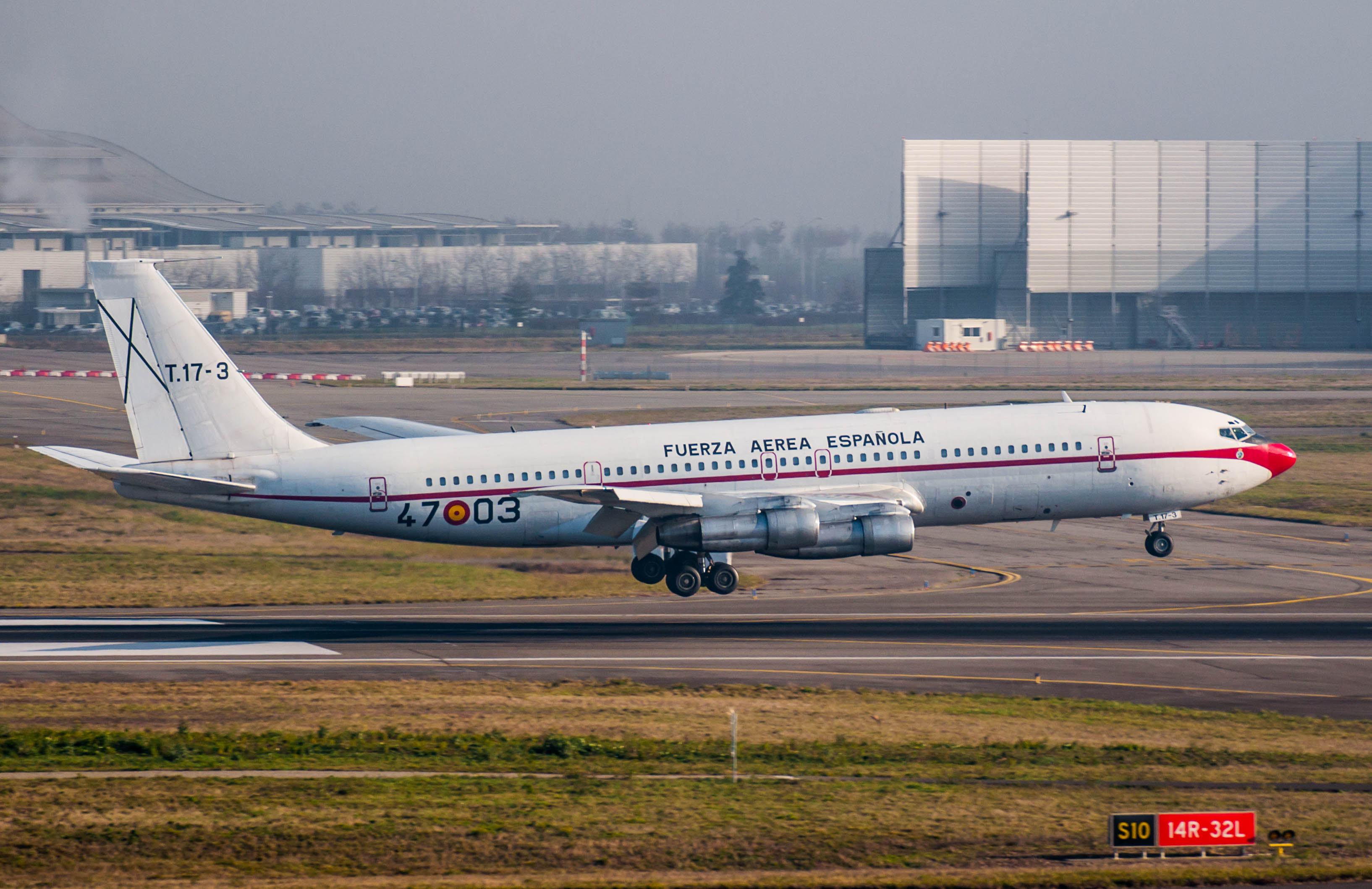 First time I ever see a Boeing 707!